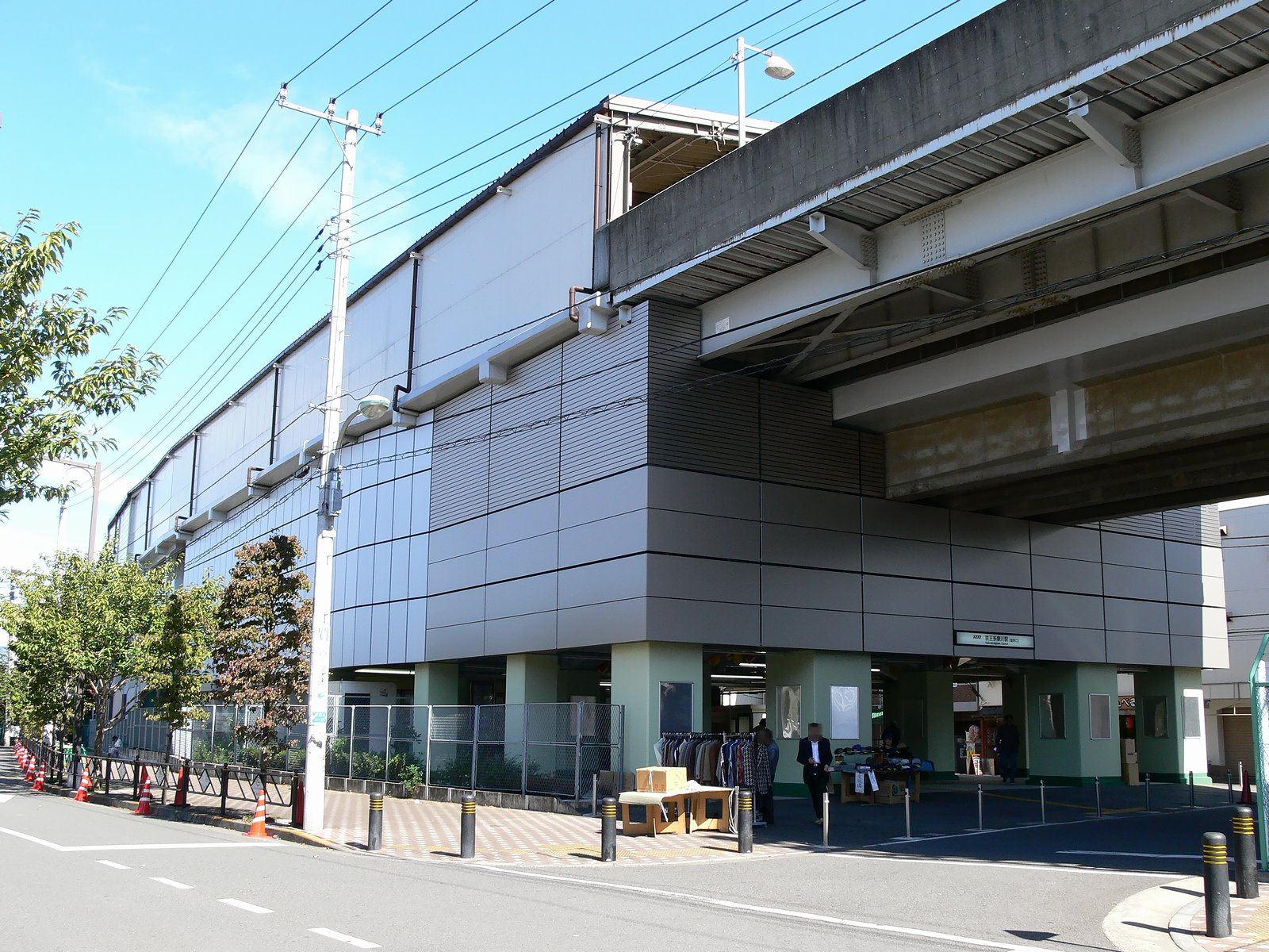 Keio-Tamagawa station,extra gate.京王多摩川駅